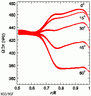 Internal rotation in the Sun, showing differential rotation in the outer convective region and almost uniform rotation in the central radiative region. The transition between these regions is called the tachocline. Image courtesy of GONG